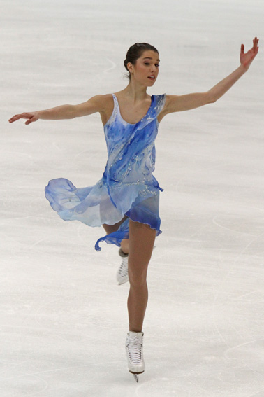 Alissa Czisny at the 2011 Four Continents Championships.